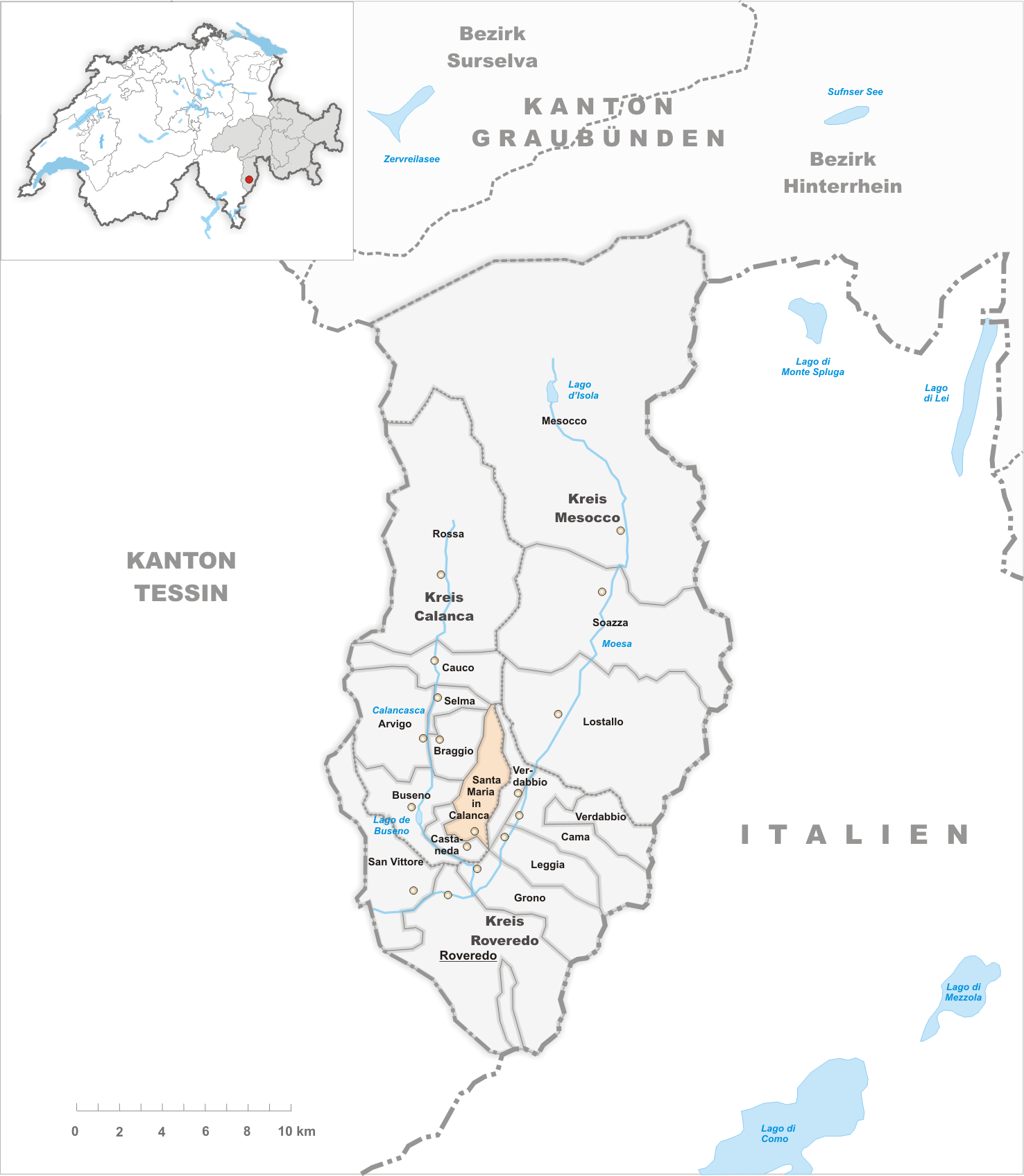 Municipality Santa Maria in Calanca